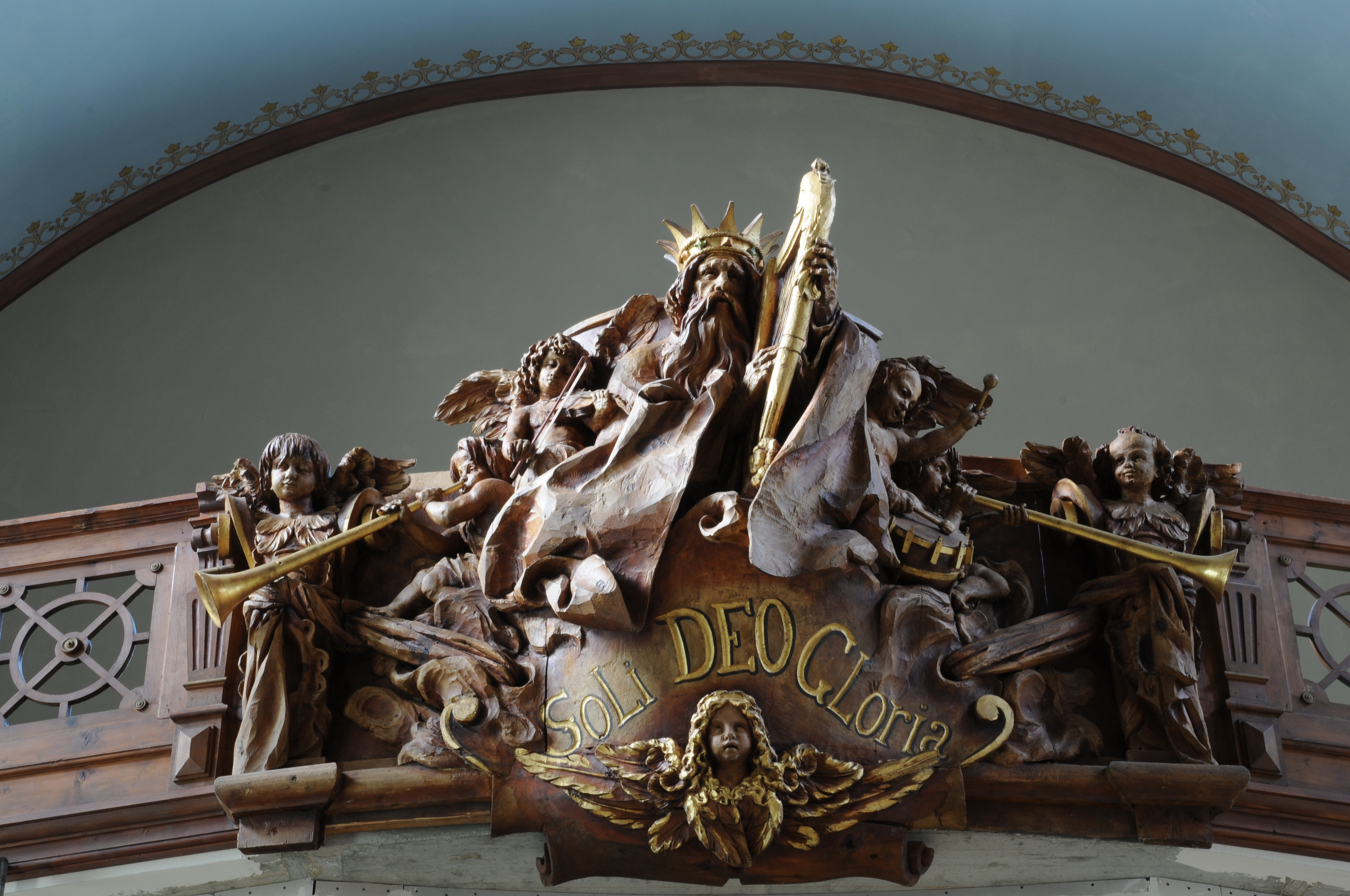 King David in the Parish church of St. Ulrich in Gröden - Ortisei. Sculpture in wood by Johann Baptist Moroder-Lusenberg 1910